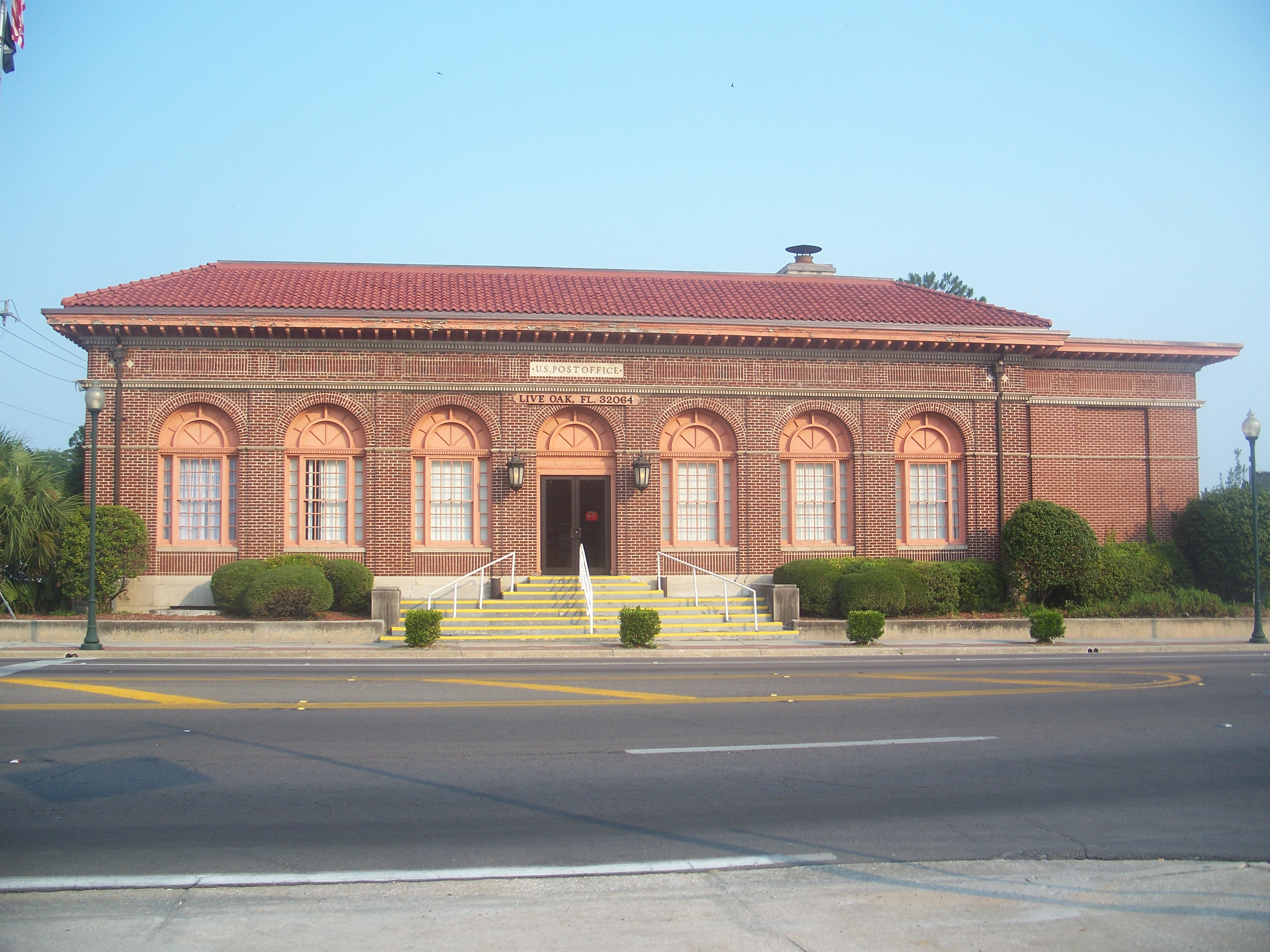 Live Oak, Florida: Old post office